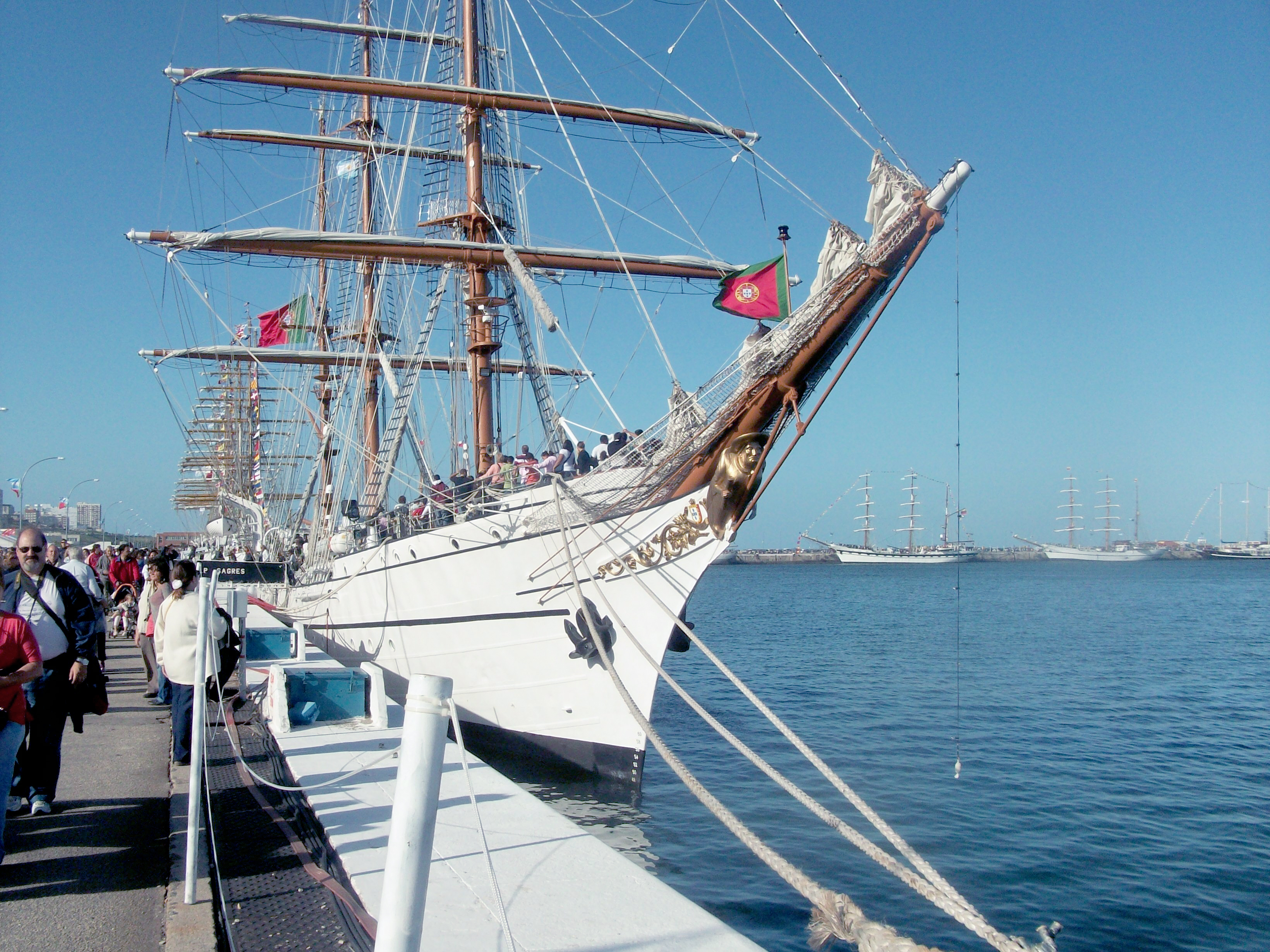 Tall ship Sagres at dock in Mar del Plata, Argentina